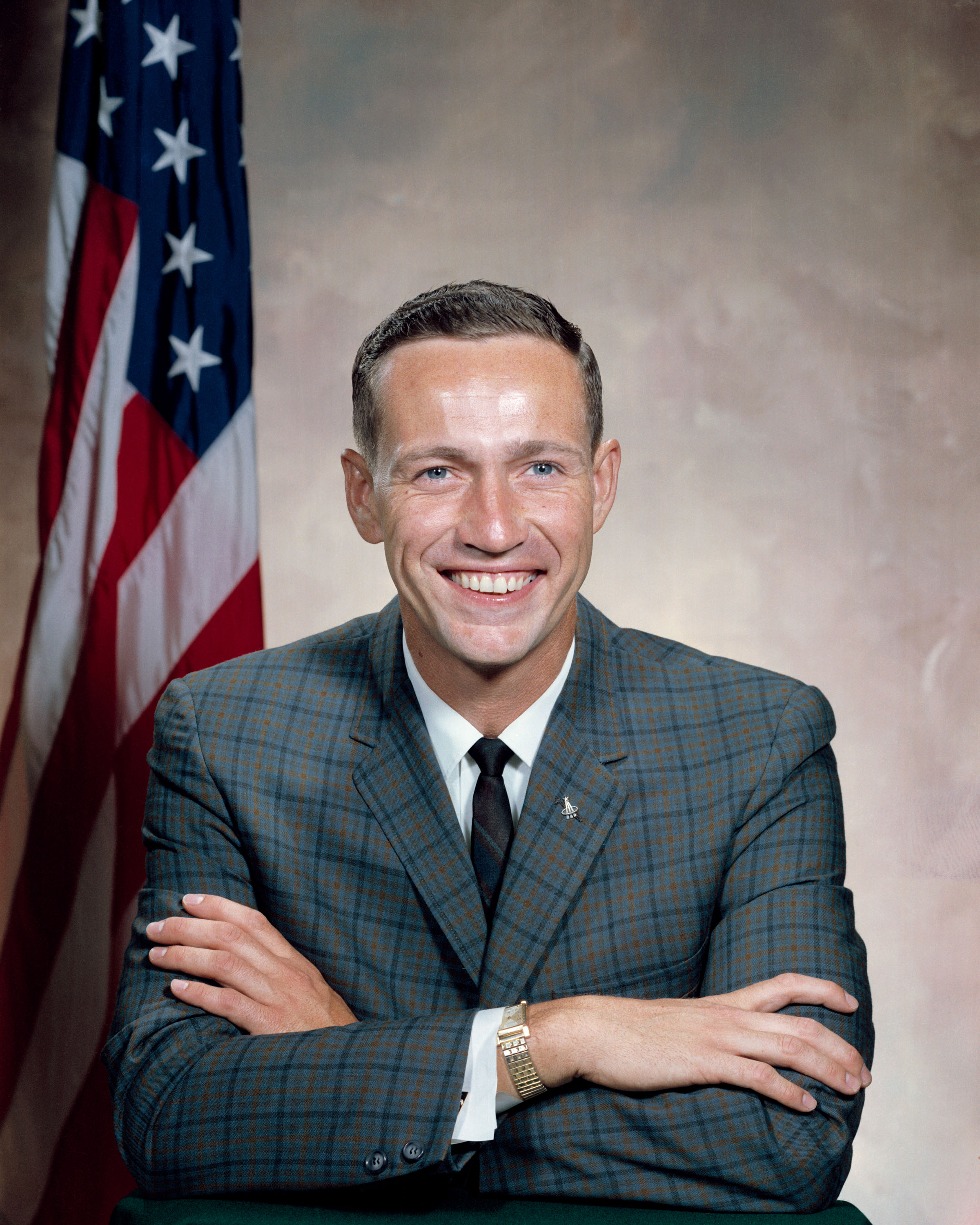 Portrait of Astronaut Donn F. Eisele.